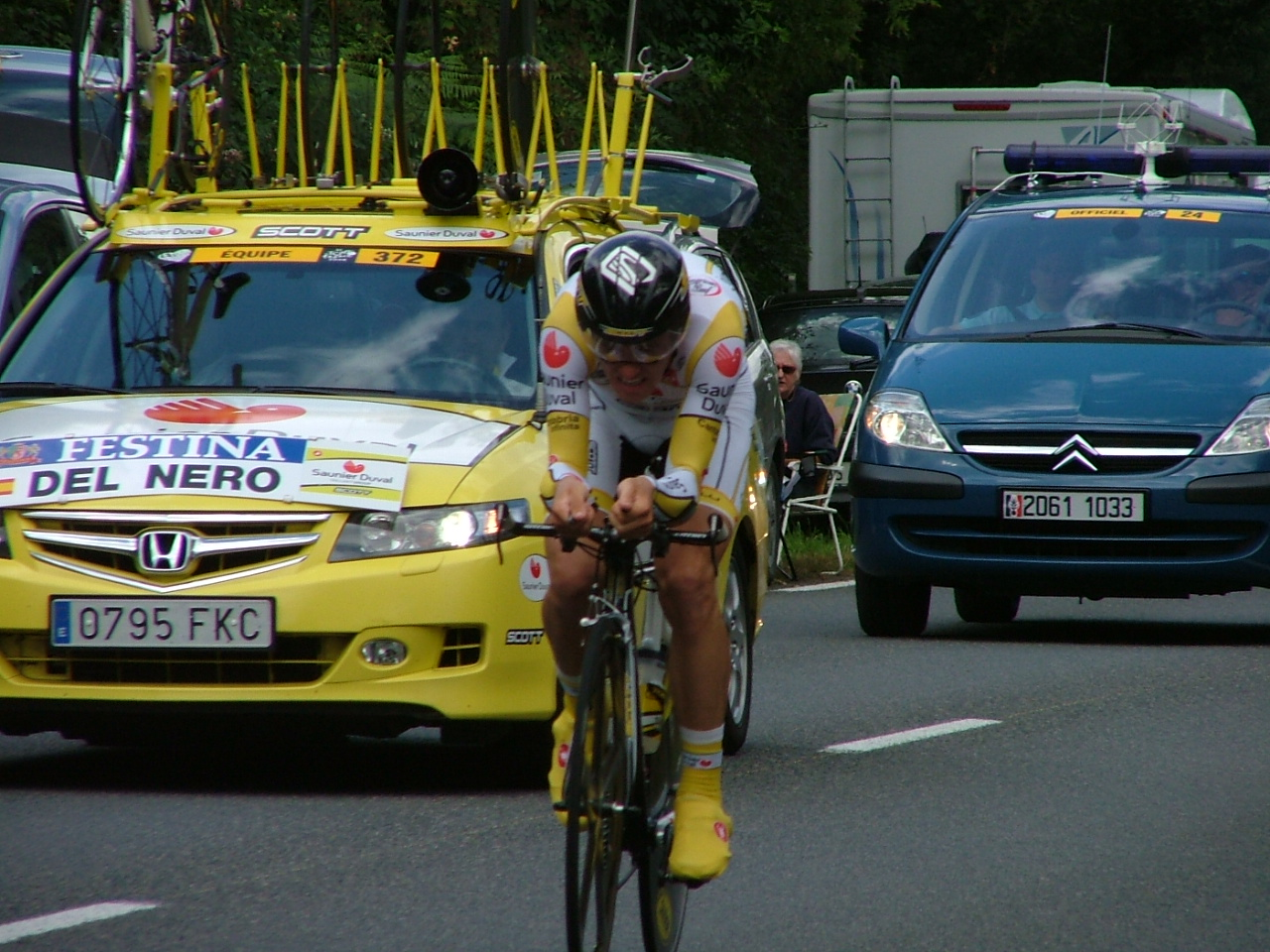 This is Jesus del nero during the cholet time trial of the Tour de France 2008